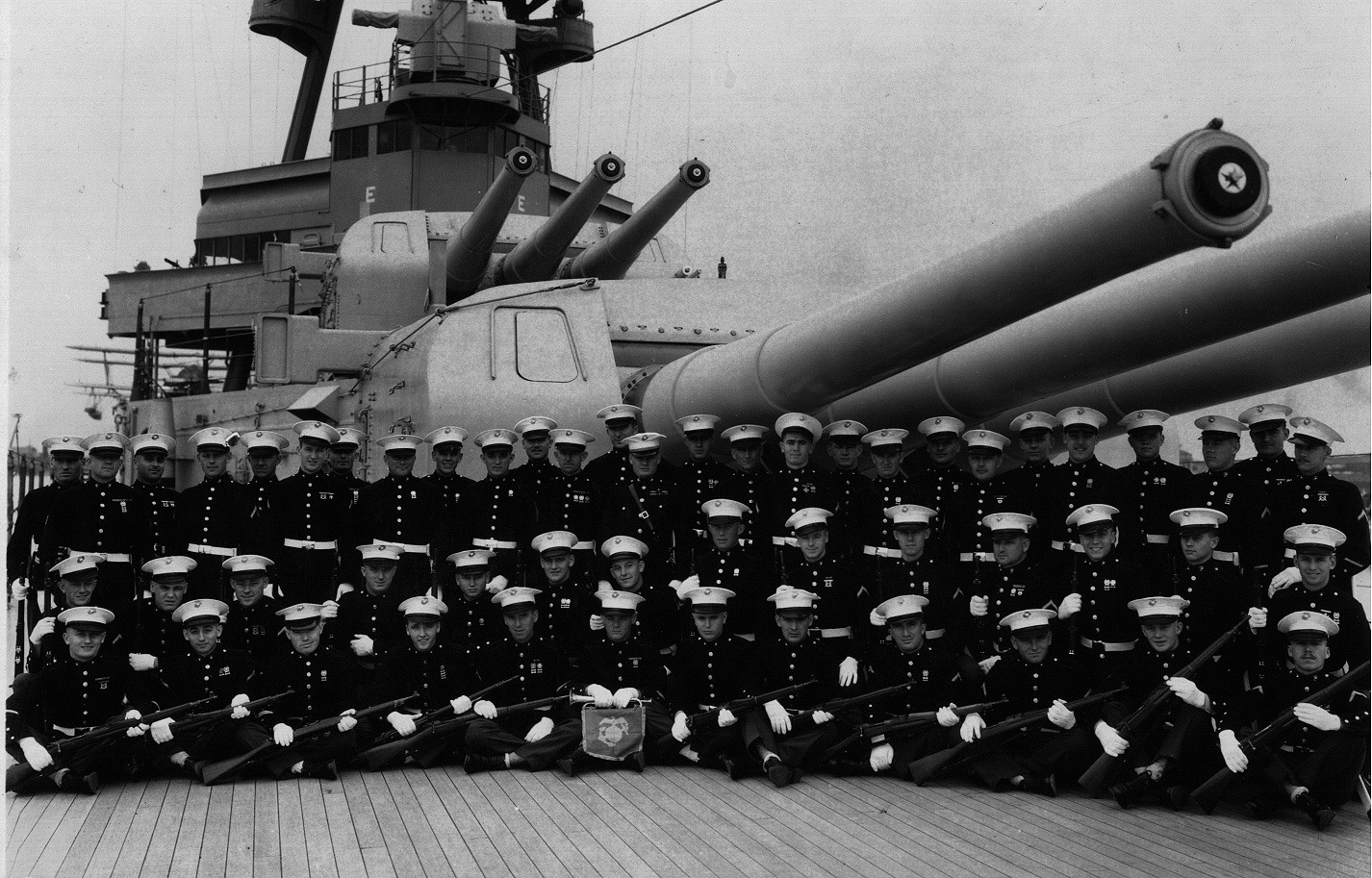 USS Augusta (CA-31). The Marine Detachment in the 1930s with Lewis "Chesty" Puller as commanding officer.